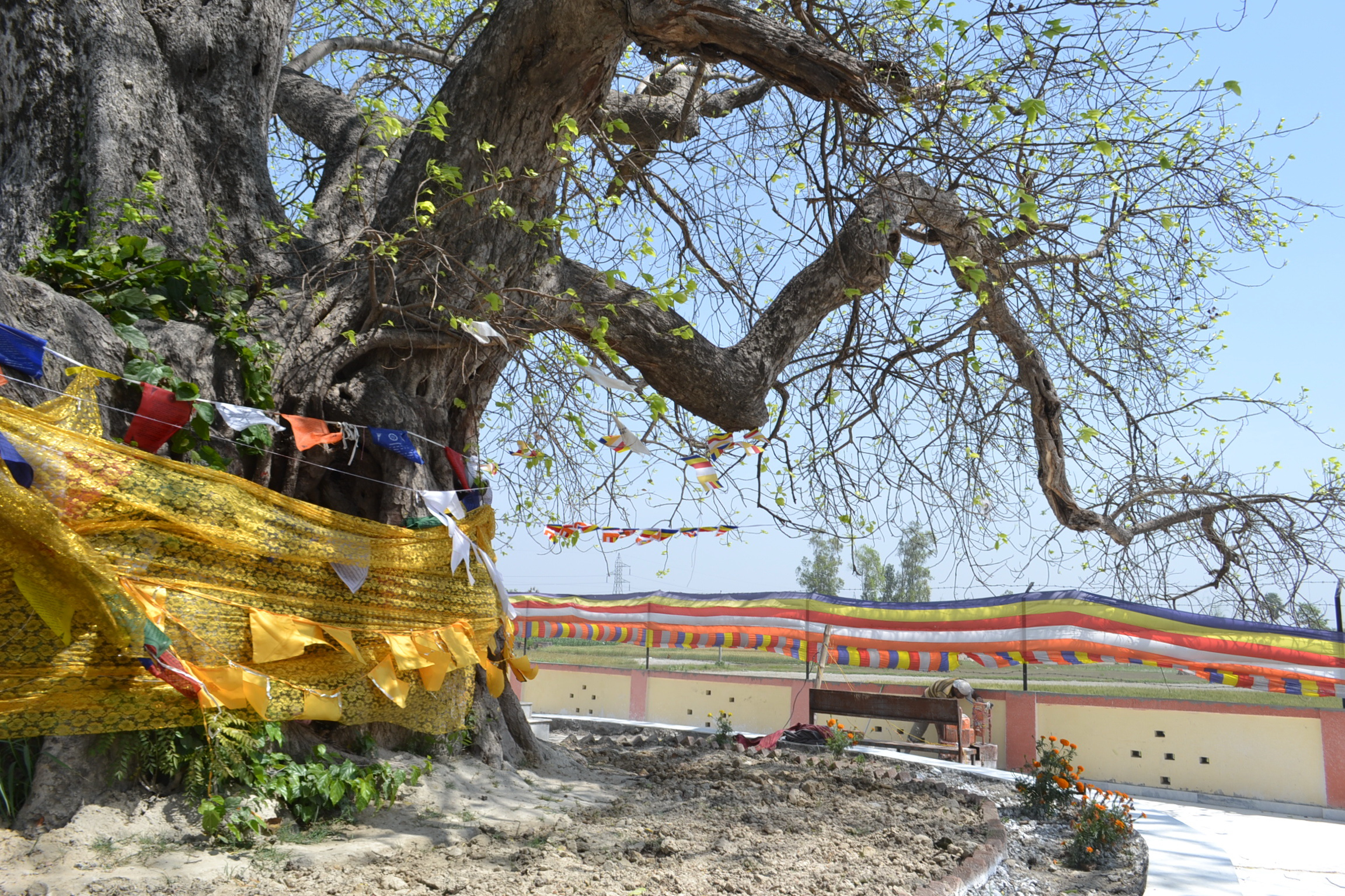 Buddha Relic Distribution Site in Kushinara Location:Kushinara, India.